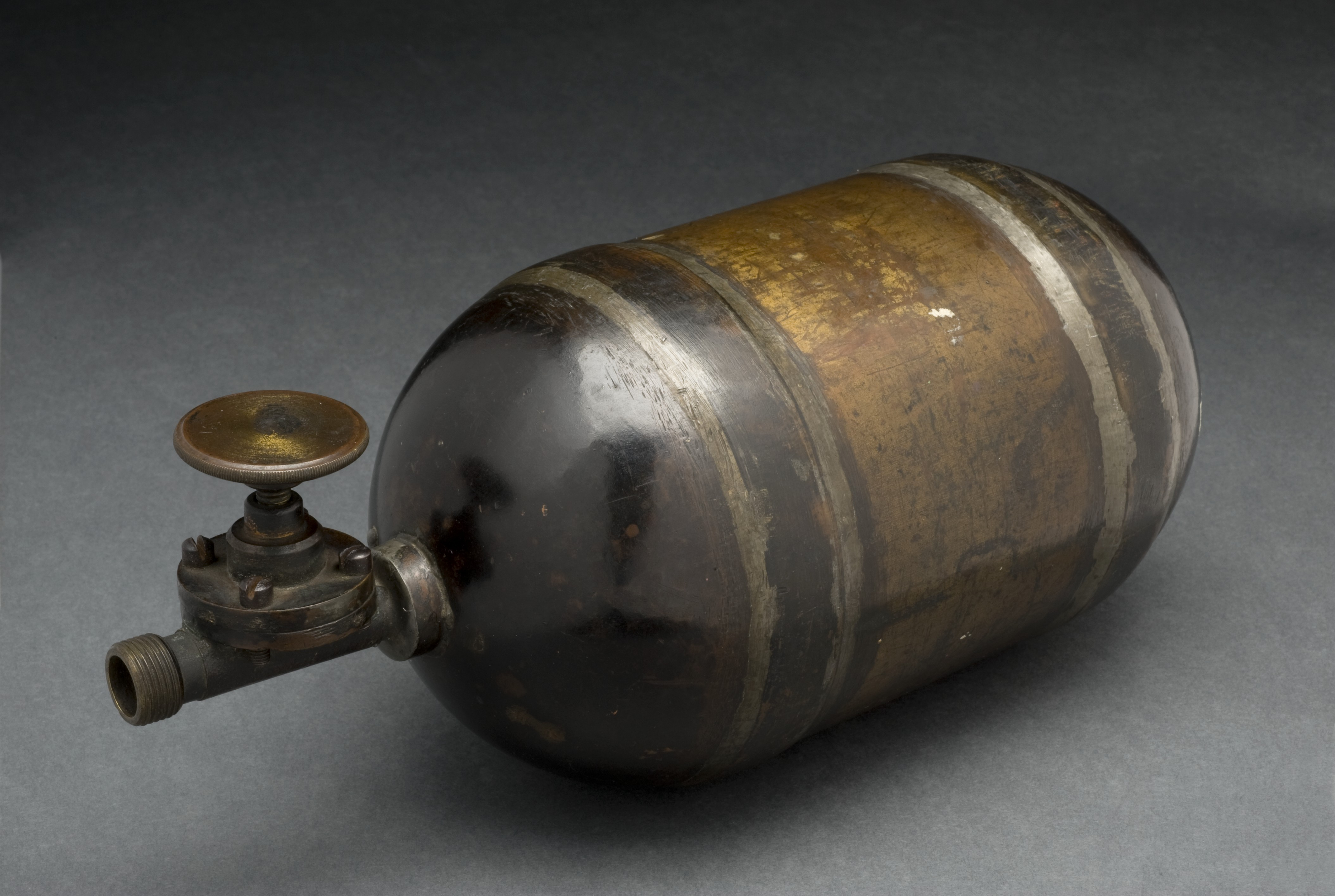 This gas cylinder, now empty, once contained nitrous oxide or ‘laughing gas’. In the late 1860s, nitrous oxide replaced chloroform as the preferred anaesthetic in dentistry. In England in 1868, George Barth and J Coxeter, of Coxeter & Son, a surgical and medical supplier, developed a way to turn nitrous oxide from gas to liquid so it could be stored easily in cylinders and sold commercially. Two years later, Coxeter & Son began selling cylinders of nitrous oxide for 3 d per gallon in exchange for empty cylinders. maker: Unknown maker Place made: Europe Wellcome Images Keywords: anaesthetic; gas cylinder; Nitrous Oxide; Dentistry